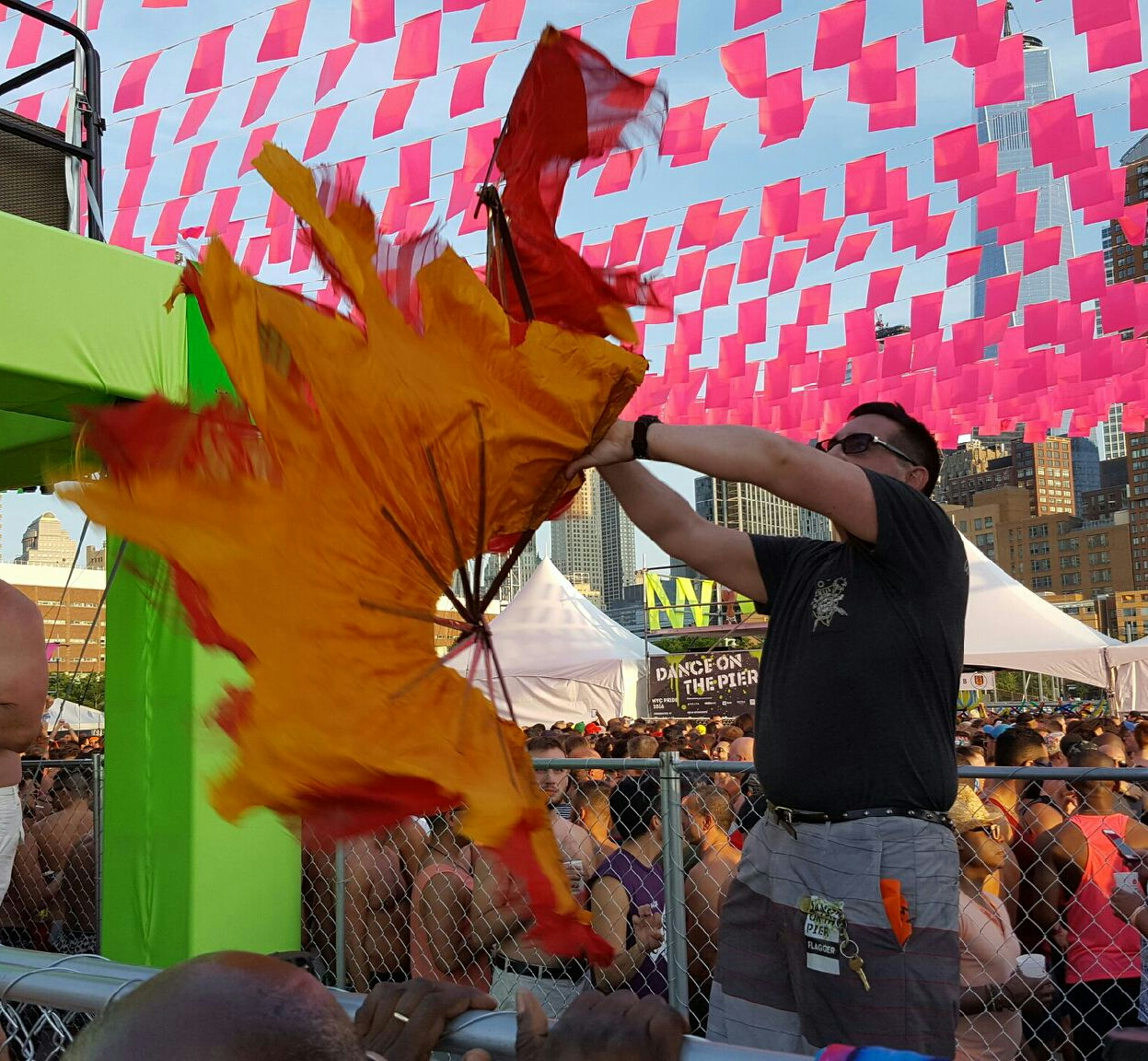 June 26, 2016 Dance on the Pier fan dancer Philip Ehrlich spins a pair of medium sized fans he designed and created. He was captured using this same pair at the Dance on the Pier of June 29, 1997 and first took to that stage on June 30, 1991 using larger fans. The late Jeffrey K. Reichlin was his mentor. Shirt and shorts: Volcom, belt: Hugo Boss, glasses: Bulgari, watch: Casio G-Shock